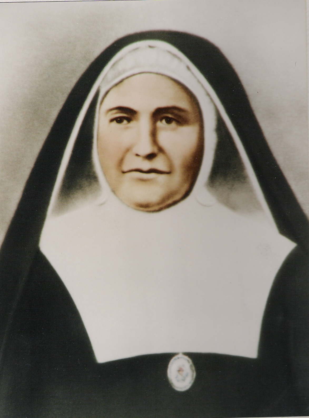 Photograph, colored, of venerable Caterina Coromina, foundress of Sisters Josefine of Charity, hospitalair religious congregation